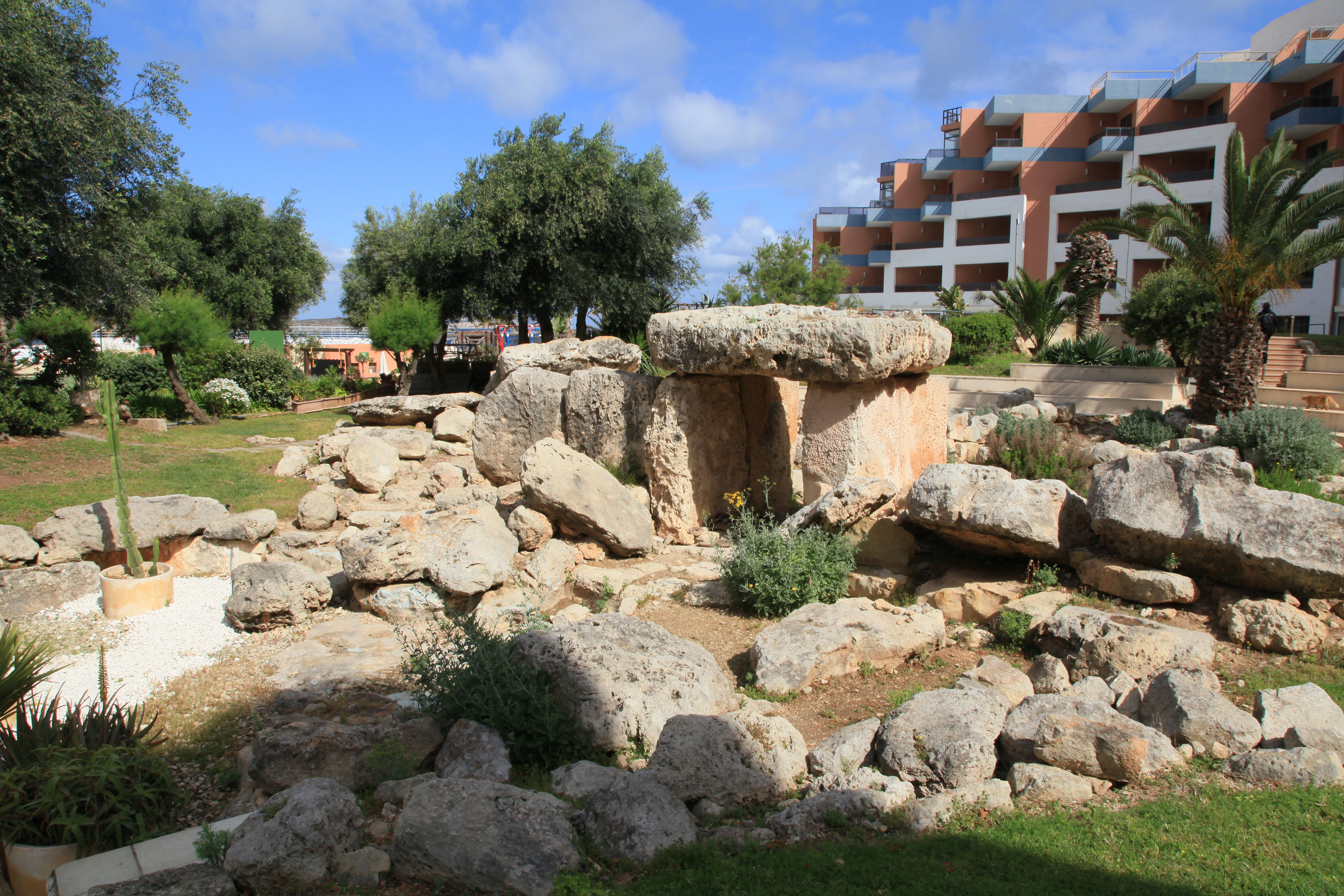 Buġibba Temple in the courtyard of the Hotel Dolmen Resort in St. Paul's Bay, Malta